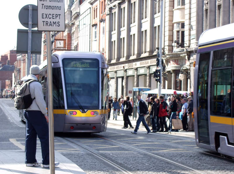 Luas Red line trams just east of O'Connell Street, Dublin